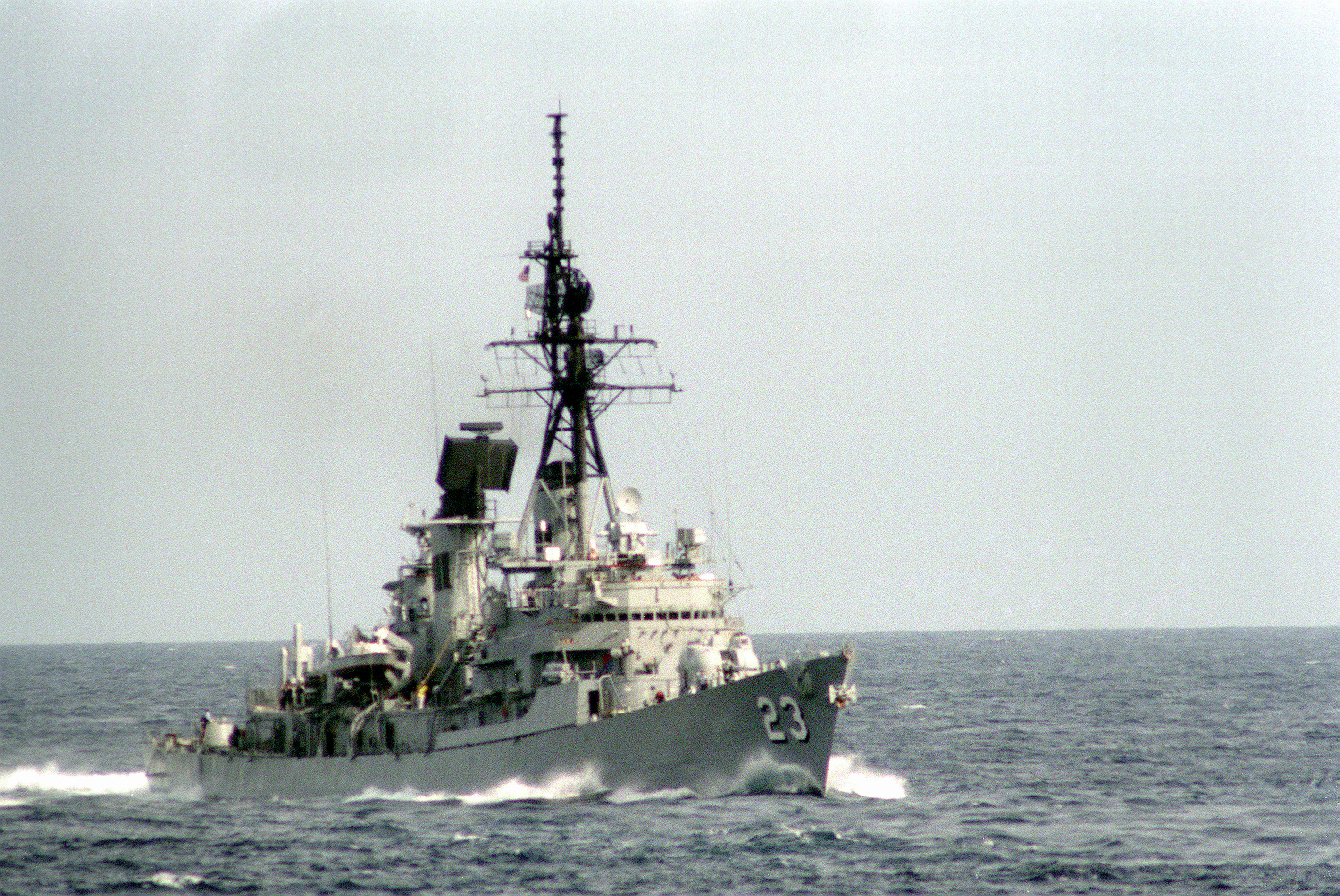 The U.S. Navy guided missile destroyer USS Richard E. Byrd (DDG-23) underway in the Atlantic Ocean on 1 November 1984.